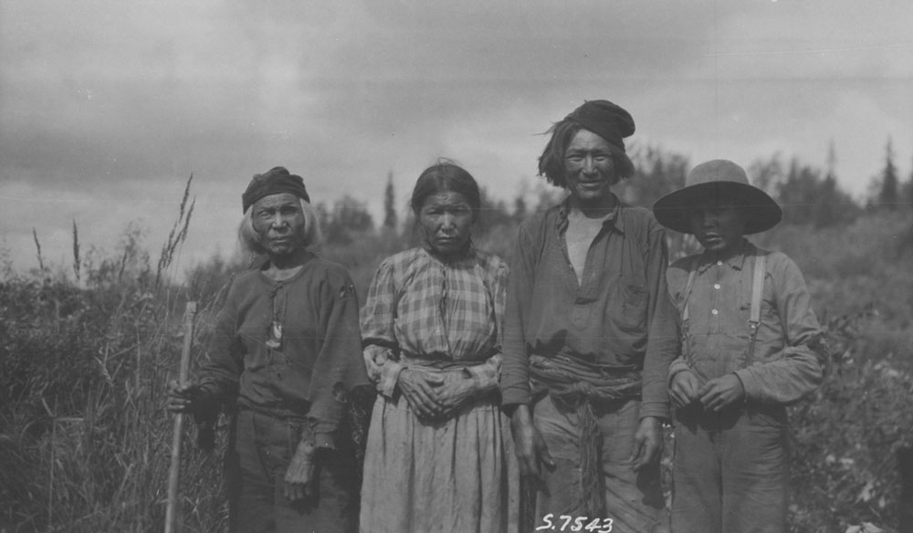 Sekani people near Fort Nelson, BC, Canada